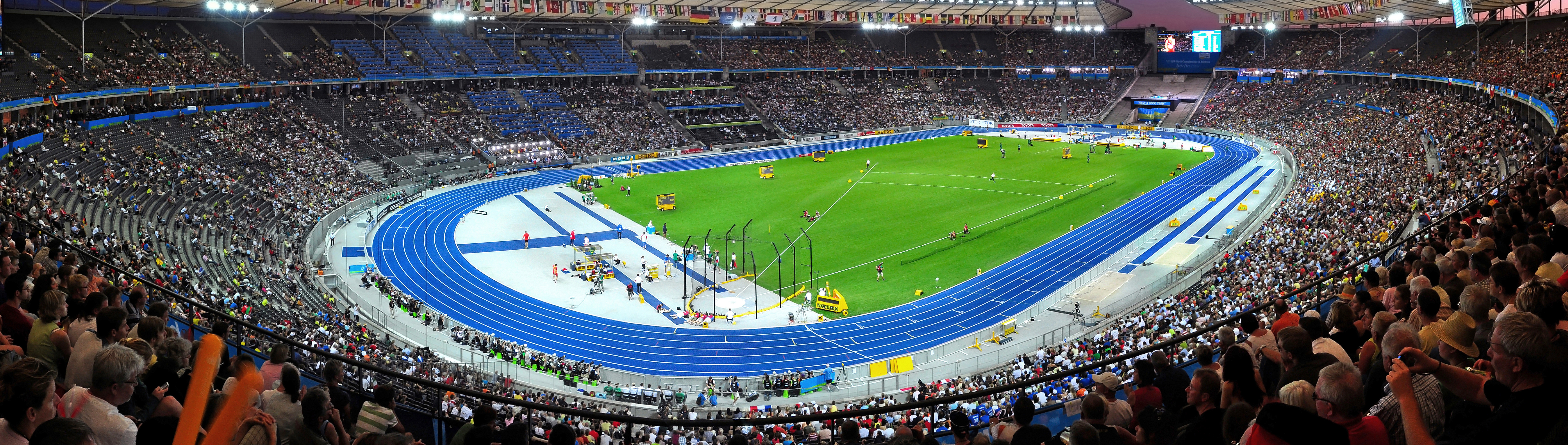 Derived from: File:Berliner Olympiastadion night.jpg